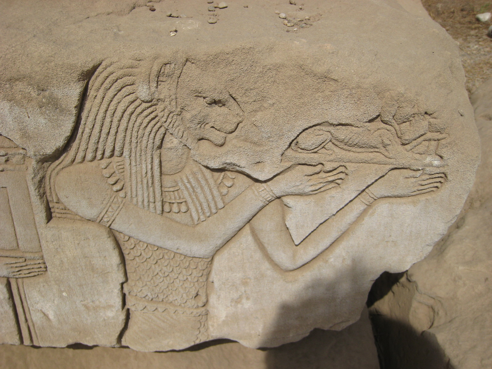 Maahes, Egypt